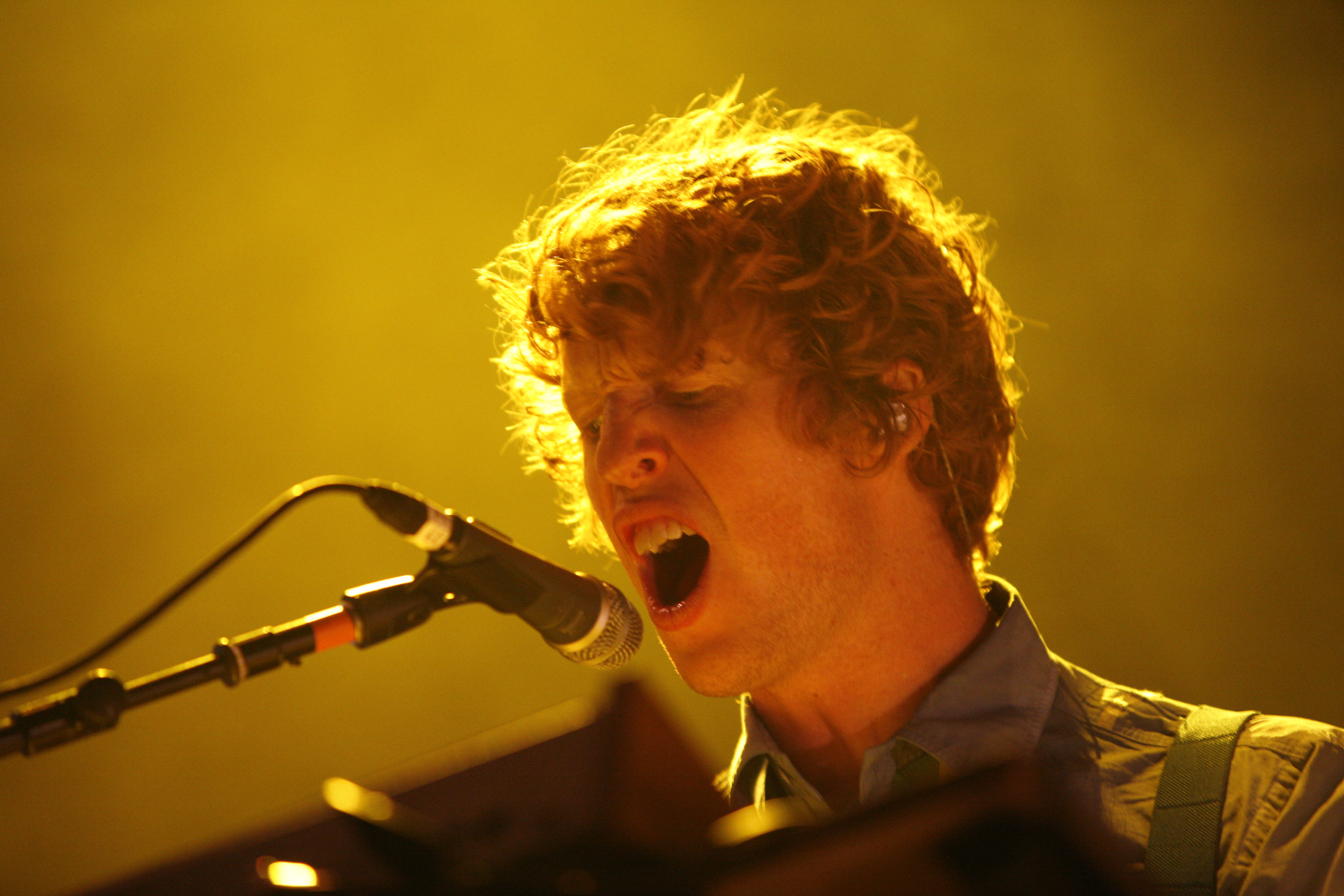 Arcade Fire at the Eurockéennes of 2007